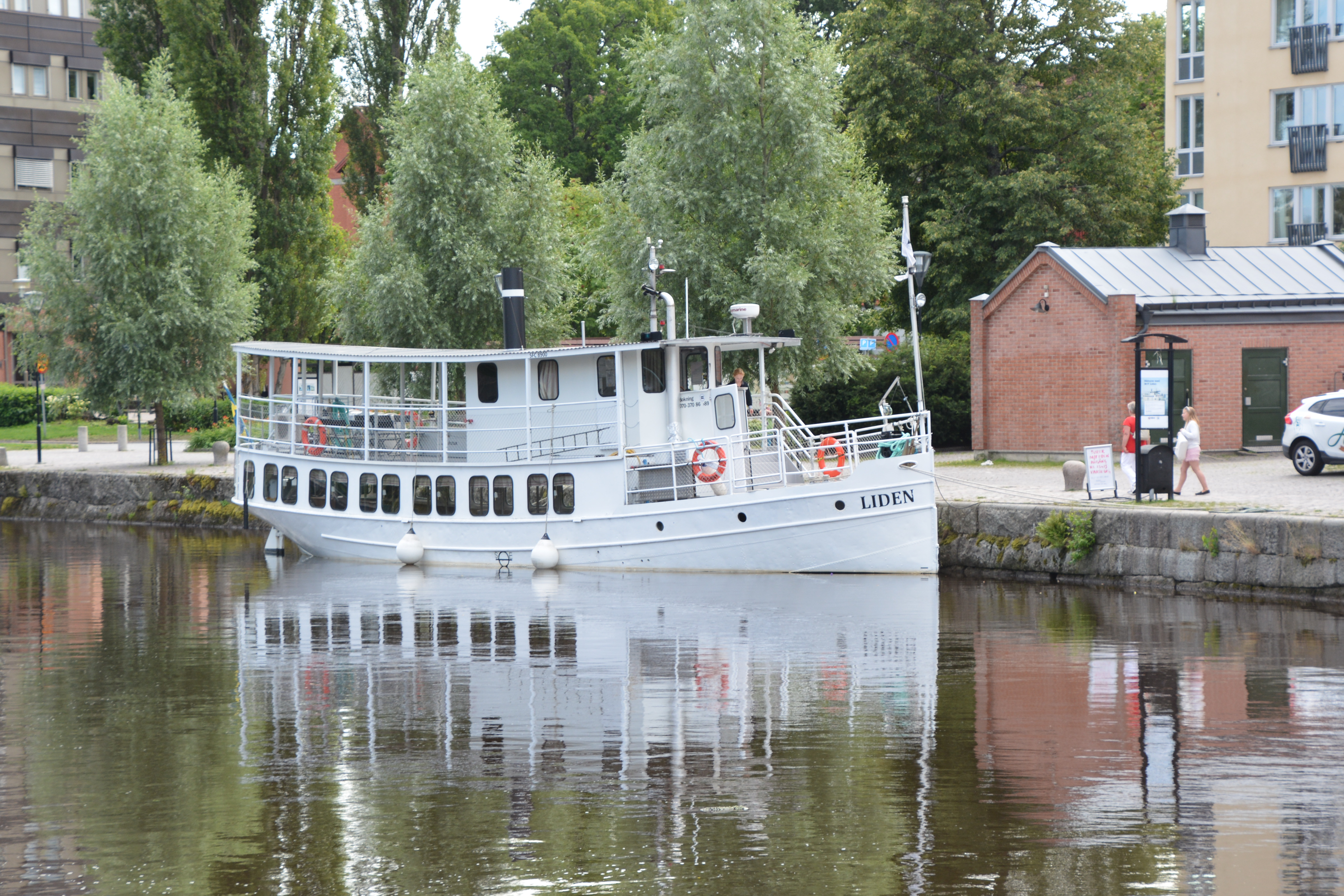 Hamnplan in Örebro, with M/S Liden